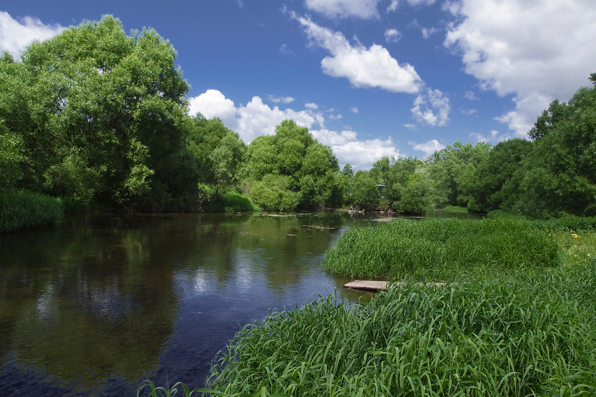 The Protva River in Borovsk (south of the only road bridge in town - near the Church of the Entry).